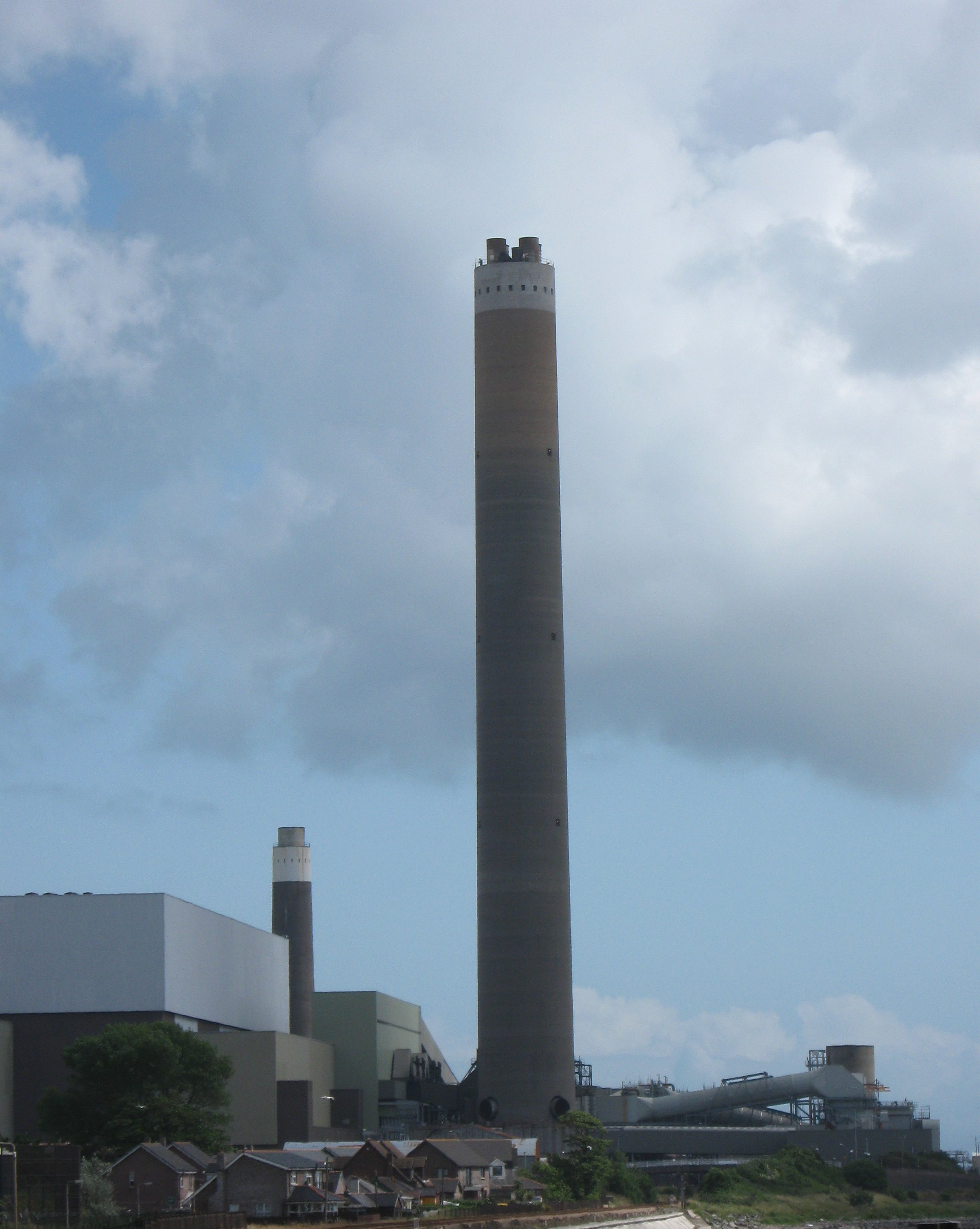 Kilroot Power Station, near Carrickfergus, Northern Ireland